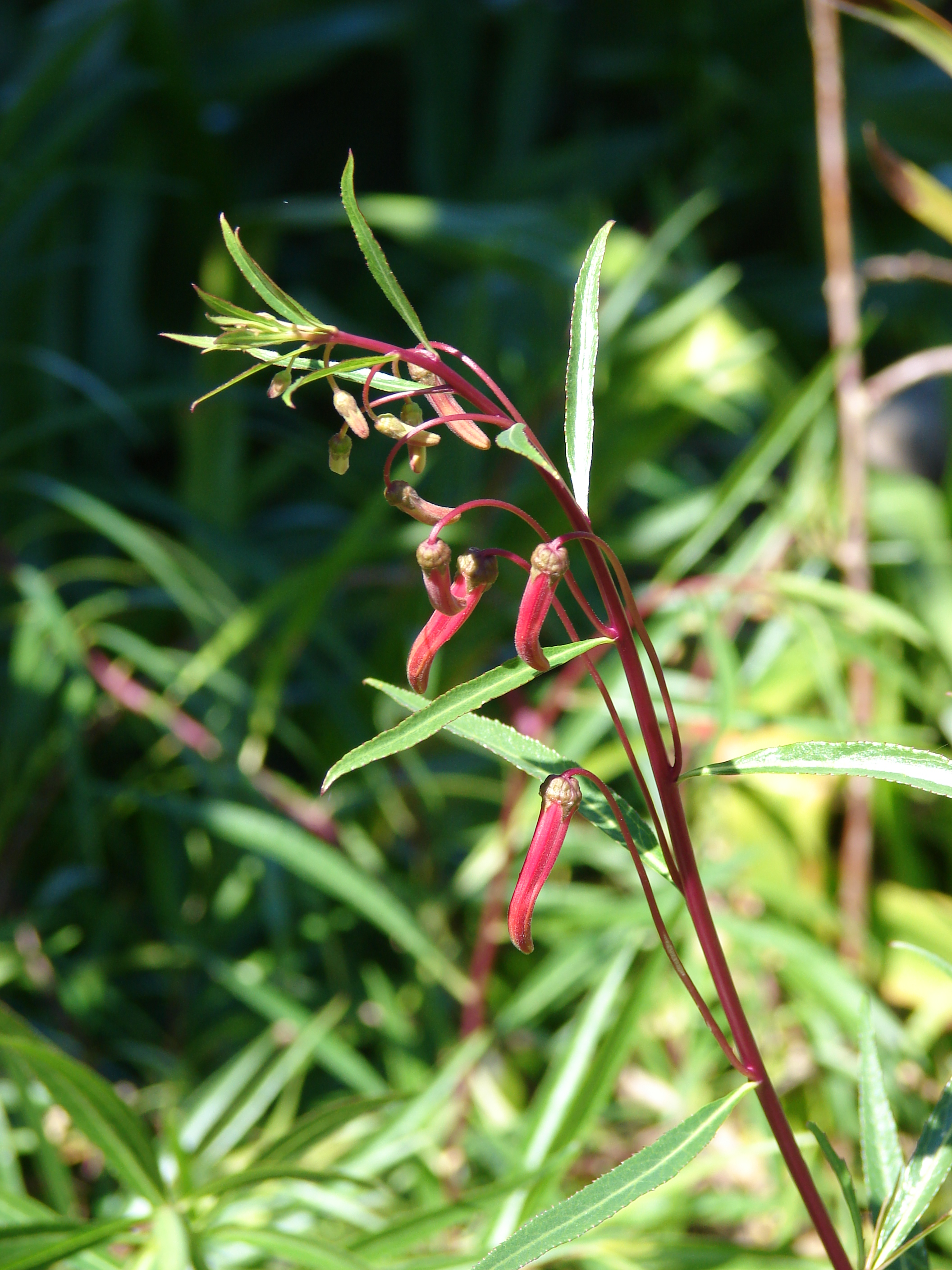 Lobelia laxifolia (flower and leaves). Location: Maui, Enchanting Floral Gardens of Kula